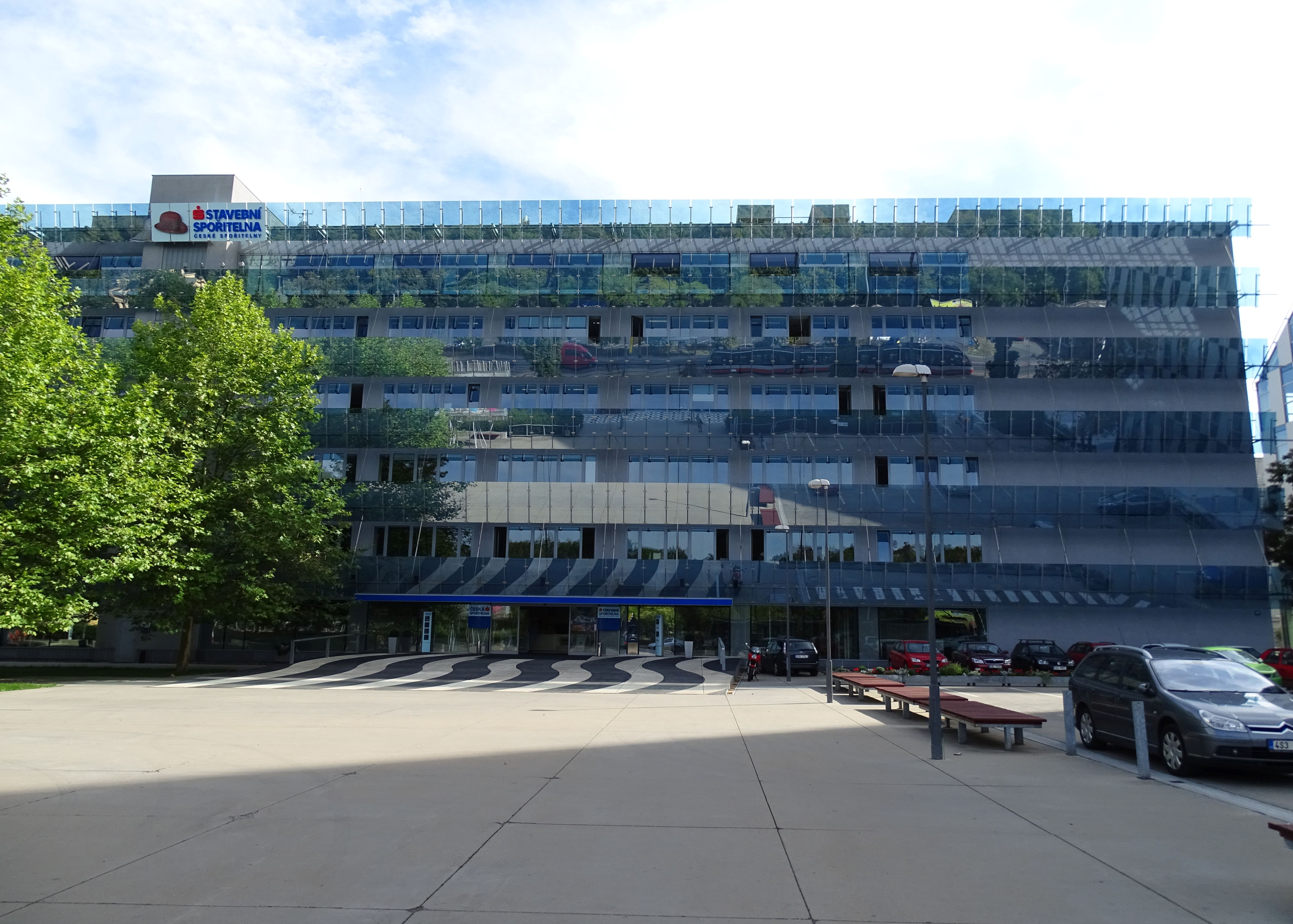 Prague-Vinohrady, Czech Republic. Vinohradská 1632/180, Buřinka bank.